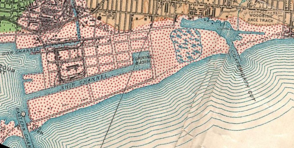 When the polluted marsh known as Ashbridges' March was filled with landfill, three sections were dredged instead for navigation. In the west the Keating Channel and the Turning Basin were dredged to a depth suitable for industrial navigation. At the east end of the marsh a new breach in the barrier sandbar was breached, known as the Coatsworth Cut, enabling navigation to a dredged rump, now known as Ashbridges' Bay. Ashbridges' Bay and the Coatsworth Cut are only used by pleasure craft.